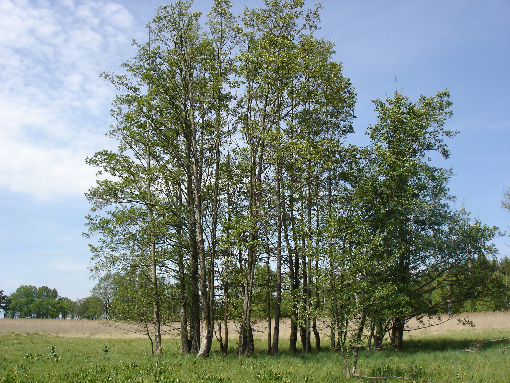 Natural monument "Roudnička a Datlík" in Hradec Králové District, Czech Republic. Two old ponds and surrounding wetlands